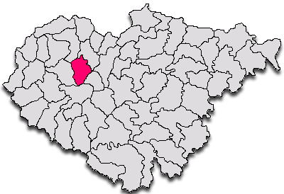 Map Salaj County Romania